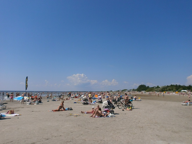 Pärnu beach